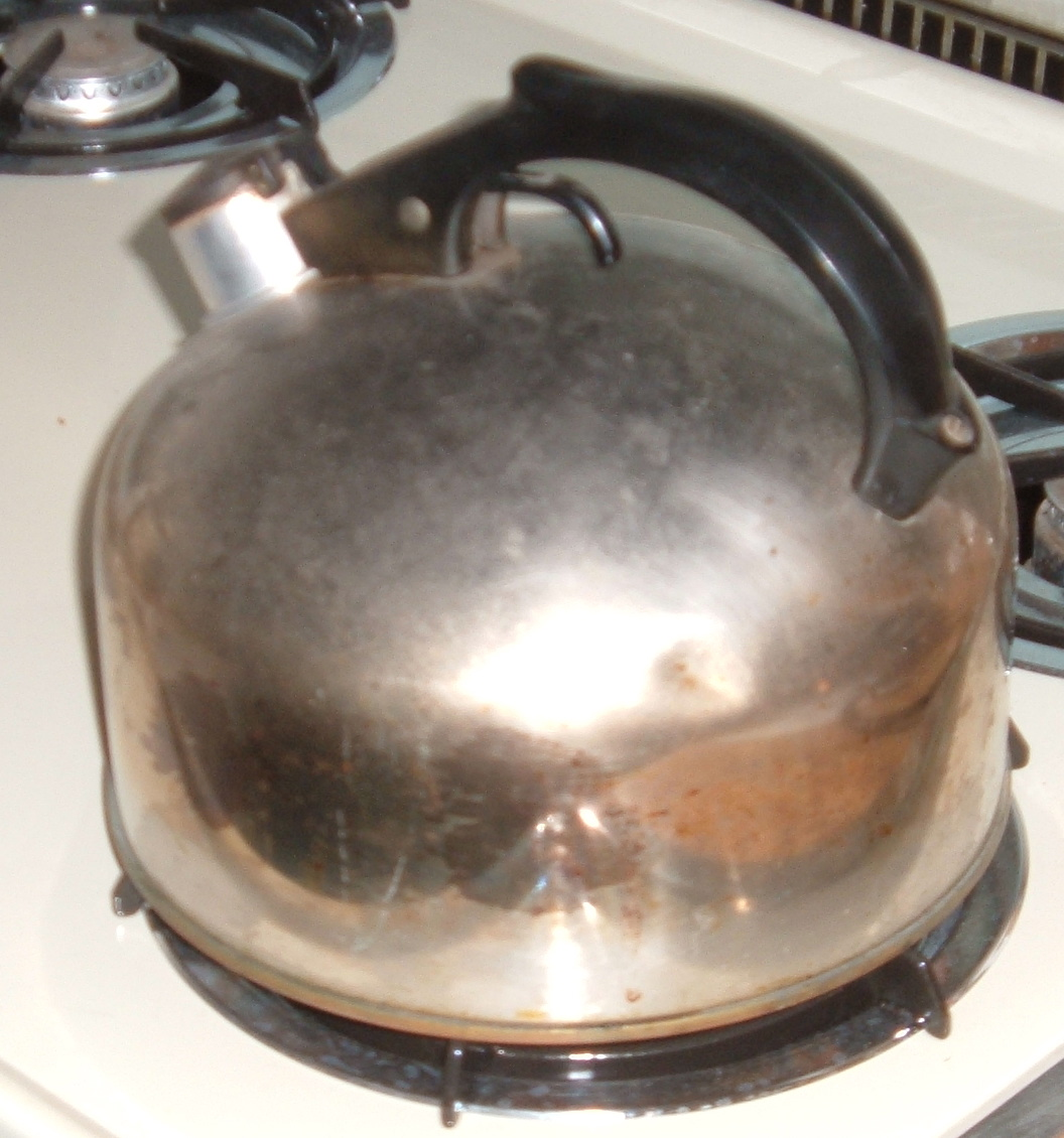 Tea kettle on a stove. One of a series of common objects I photographed in the summer of 2005 to illustrate Basic English picture wordlist. --agr 21:08, 3 August 2005 (UTC)